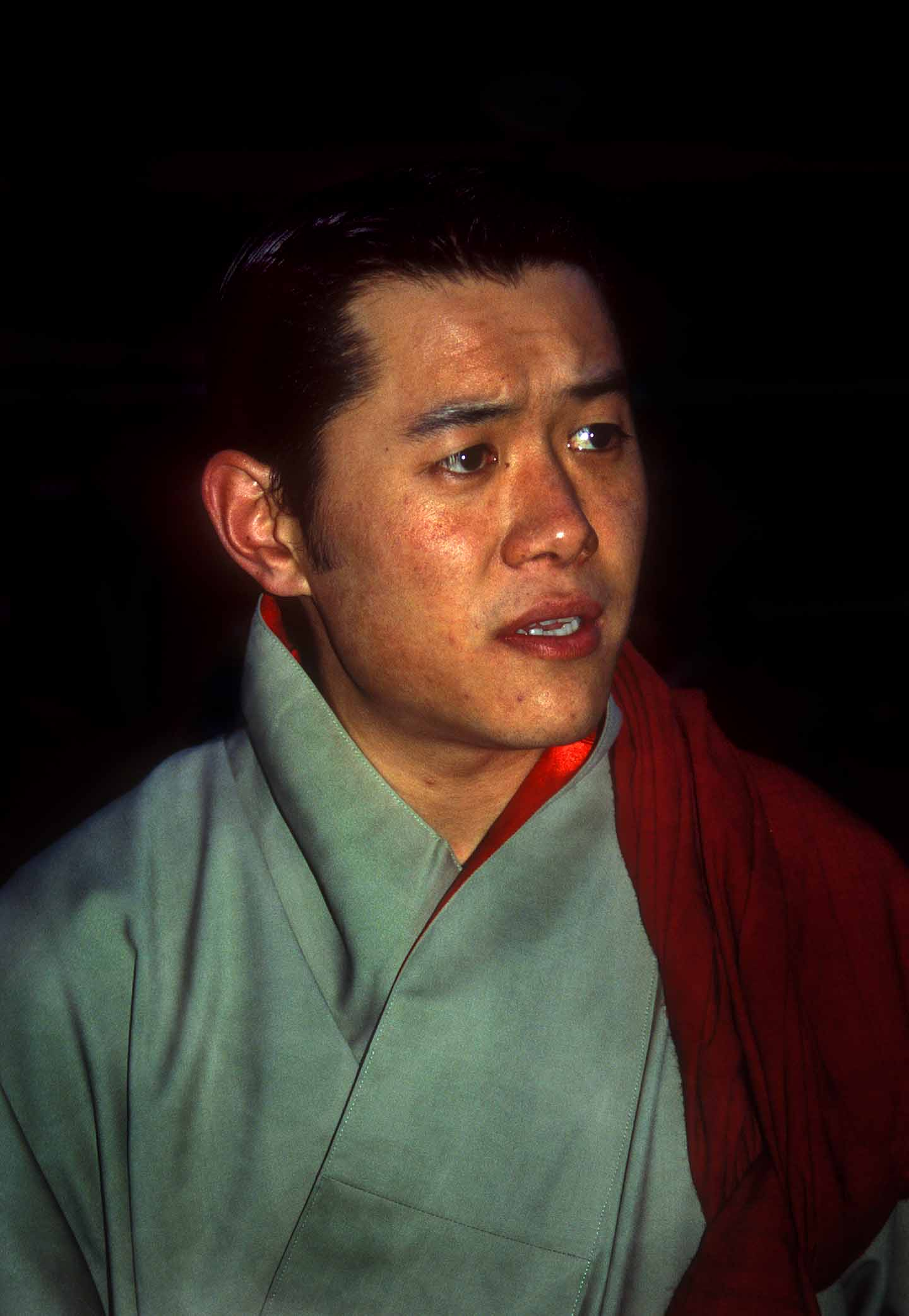 Jigme Khesar Namgyal Wangchuck, the 5th King of Bhutan (in 2005, then Crown Prince).